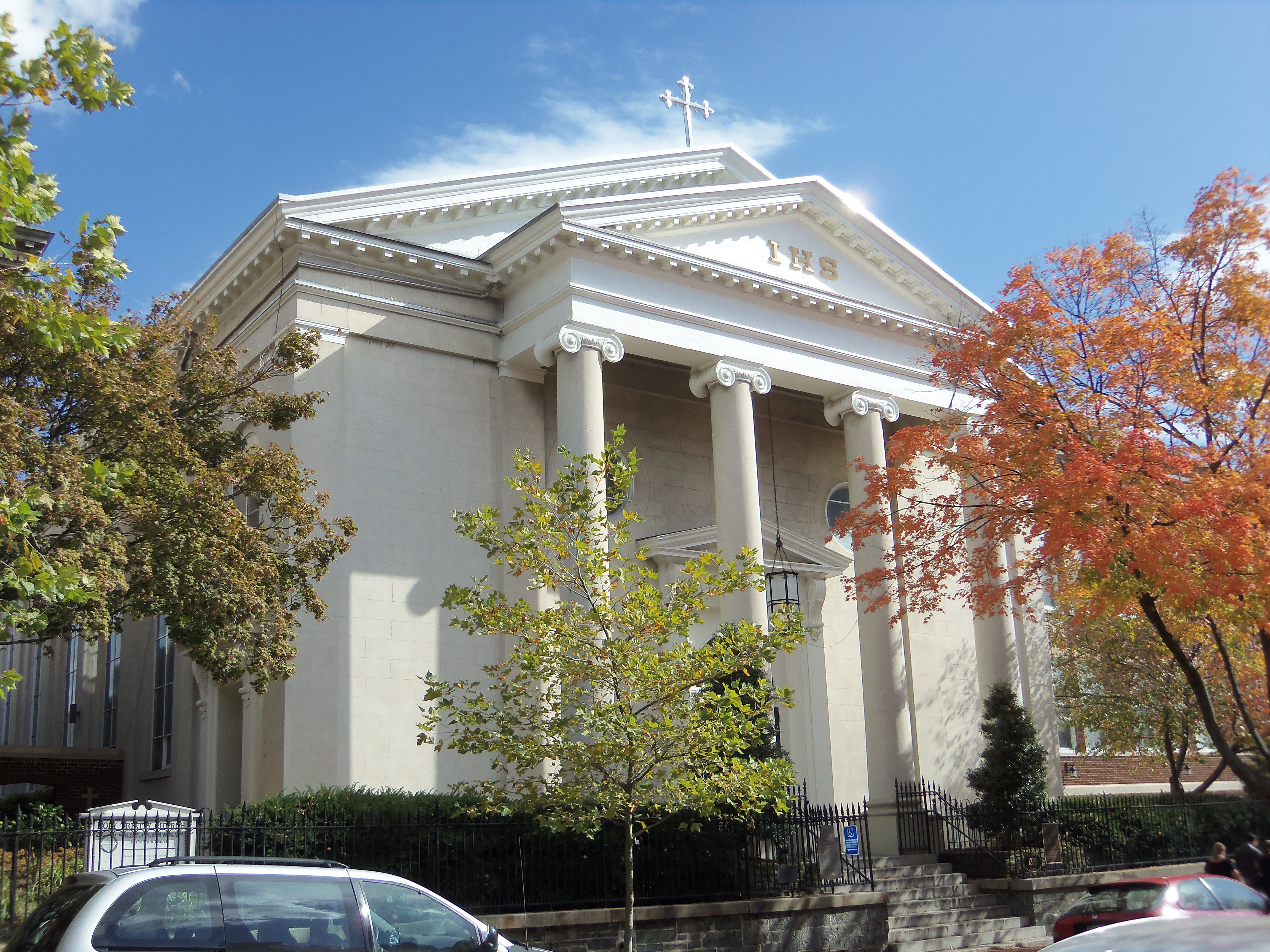 Holy Trinity Catholic Church in Georgetown, Washington, D.C. is the oldest Catholic Catholic Church in the District of Columbia.